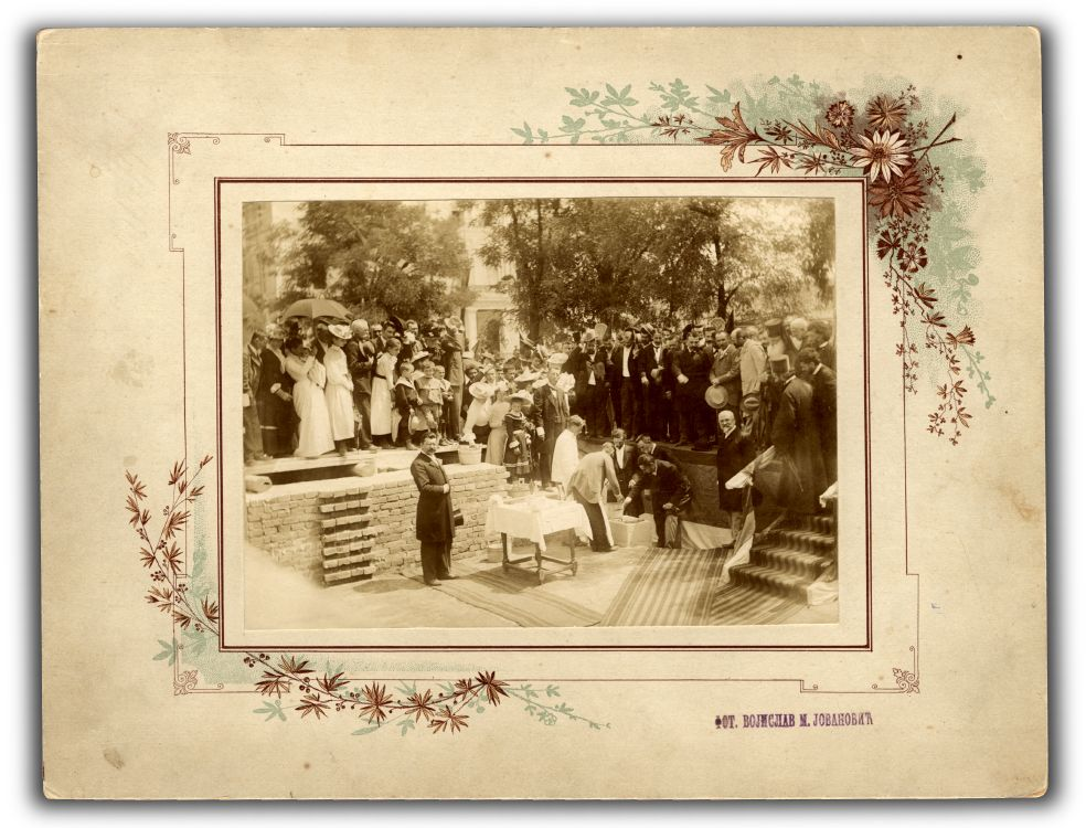 Belgrade, 1903 - Laying of the cornerstone for the building of the Fund Management in the place where the café “Dardanelle” used to be.Catalog number: Zf, A-VI-1